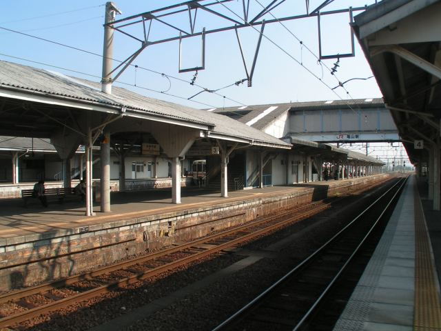 Kameyama Station (Mie)